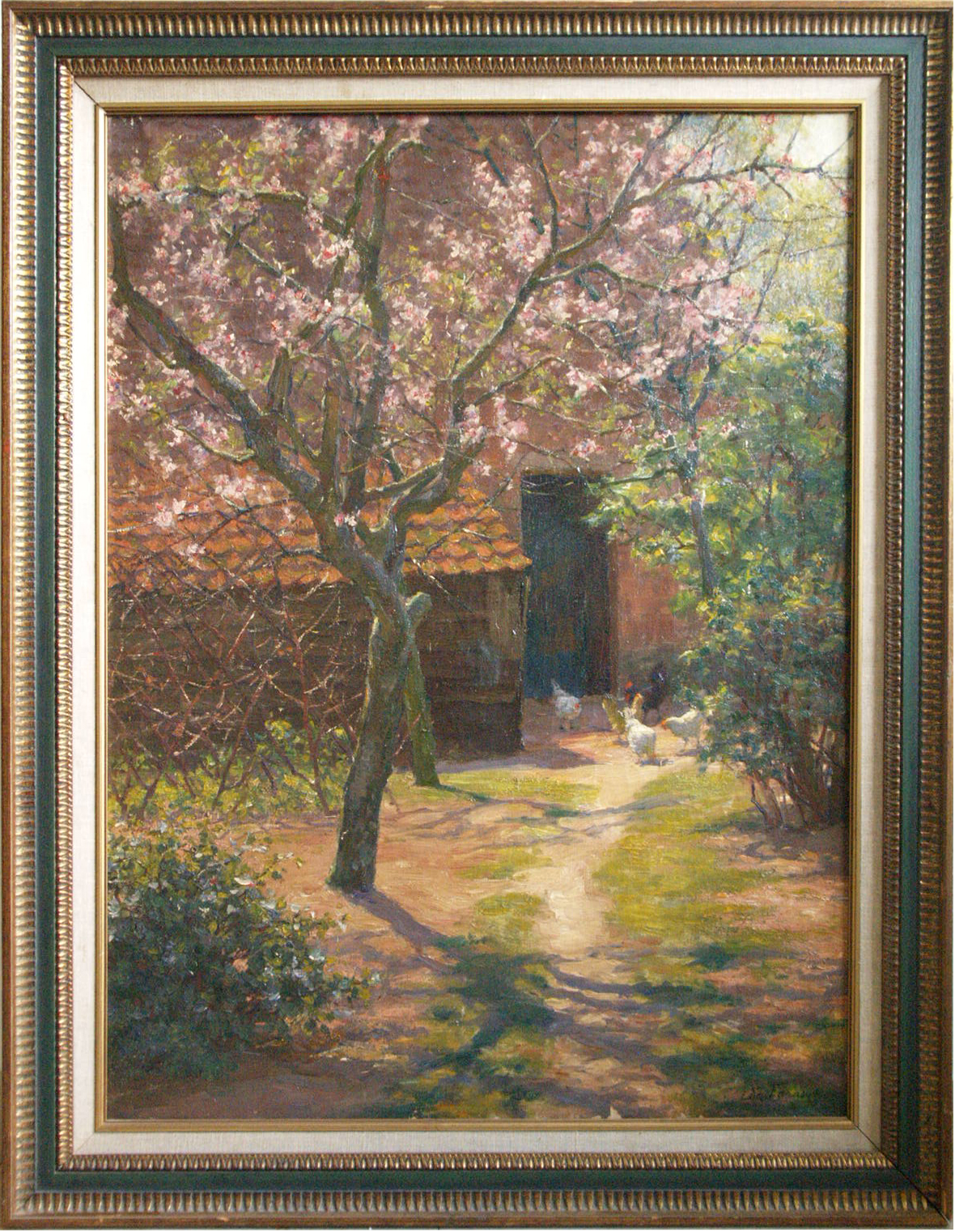 Foto of a privately owned signed painting by Edgar Farasyn showing chicken on a yard. Farasyns original naming is unknown to me.